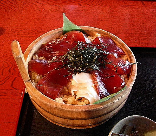 A local cuisine of vinegared rice and fish, which would be mixed with fingers just before eating it, called `Tekone-zusi,' is a kind of Sushi in Ise-shi, Mie-ken, Japan.